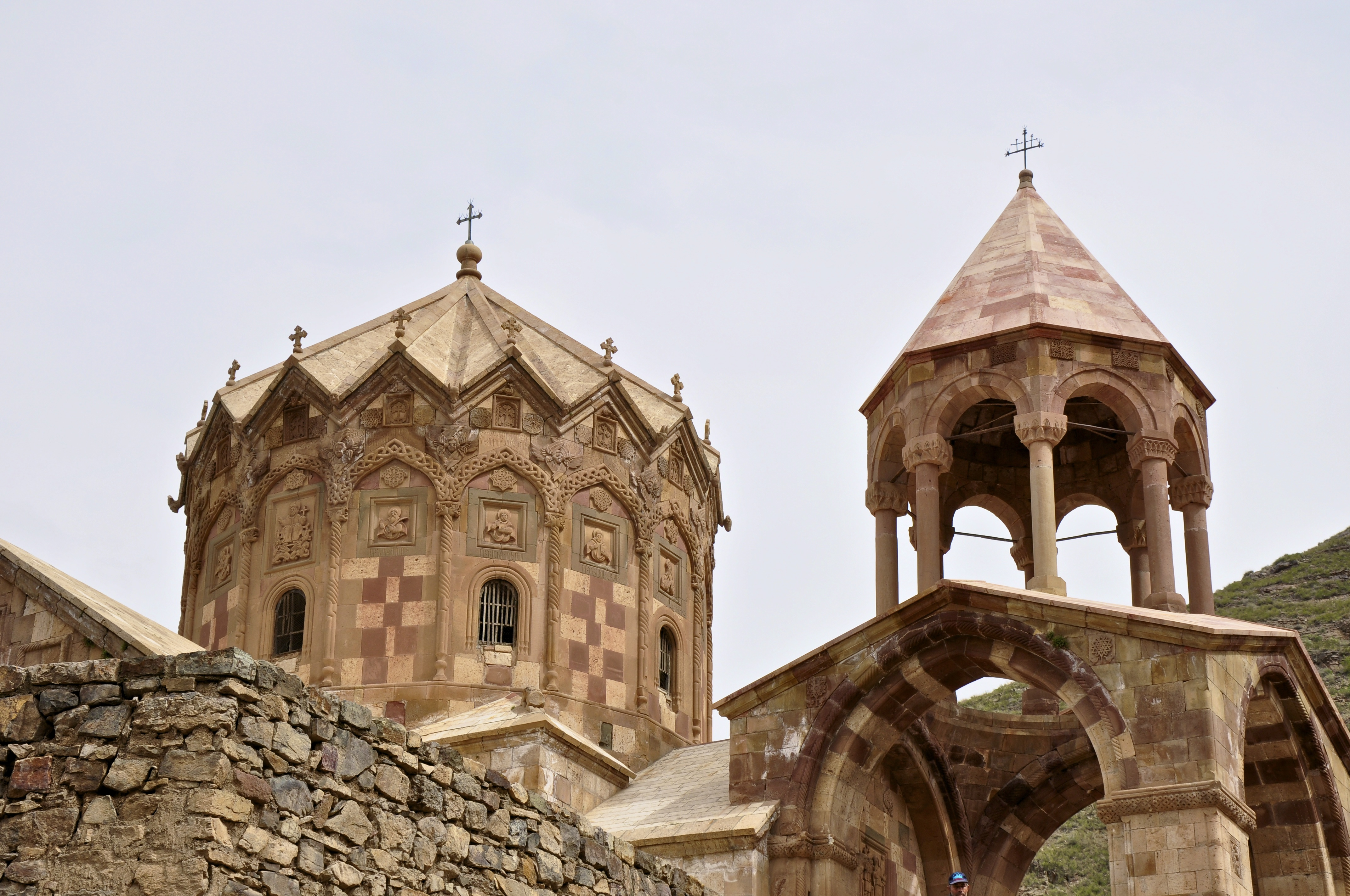 Saint Stepanos Monastery, Jolfa, Iran